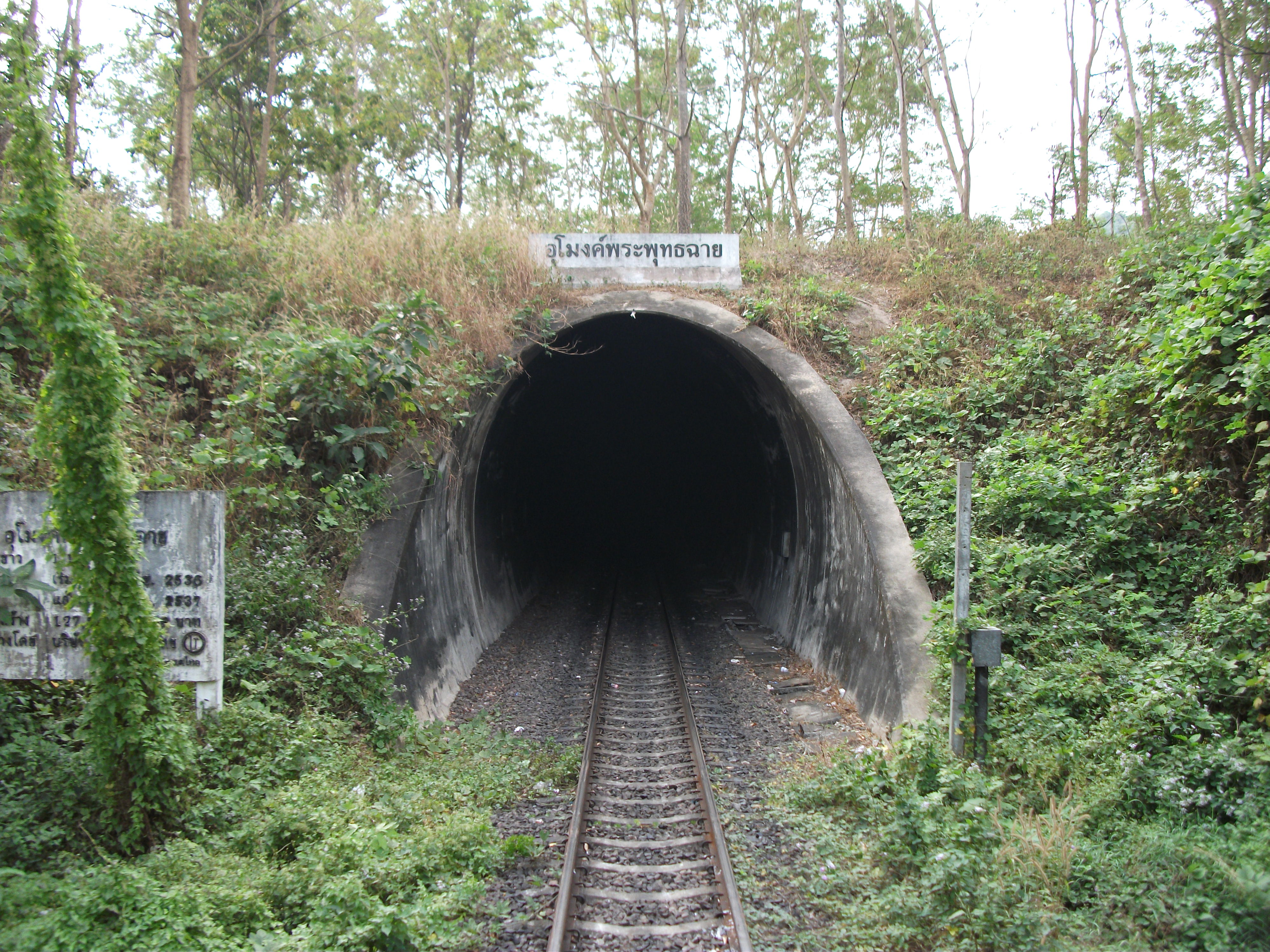 Phra Phutthachai Tunnel on Khlong Sip Kao - Kaeng Khoi Railway, Thailand. It was built in 1994.